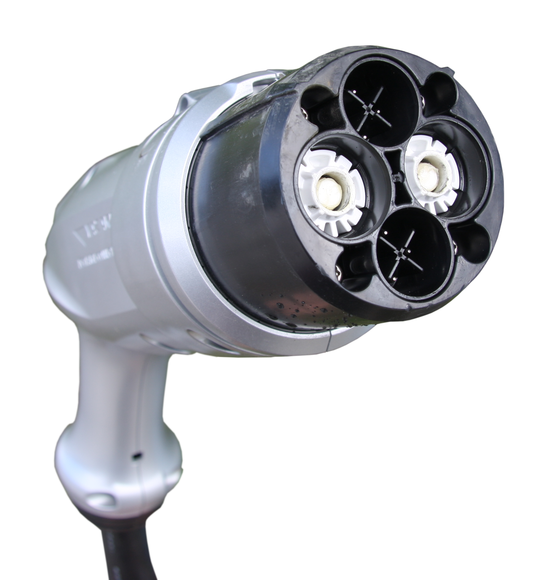 The side oblique view of a CHAdeMO connector